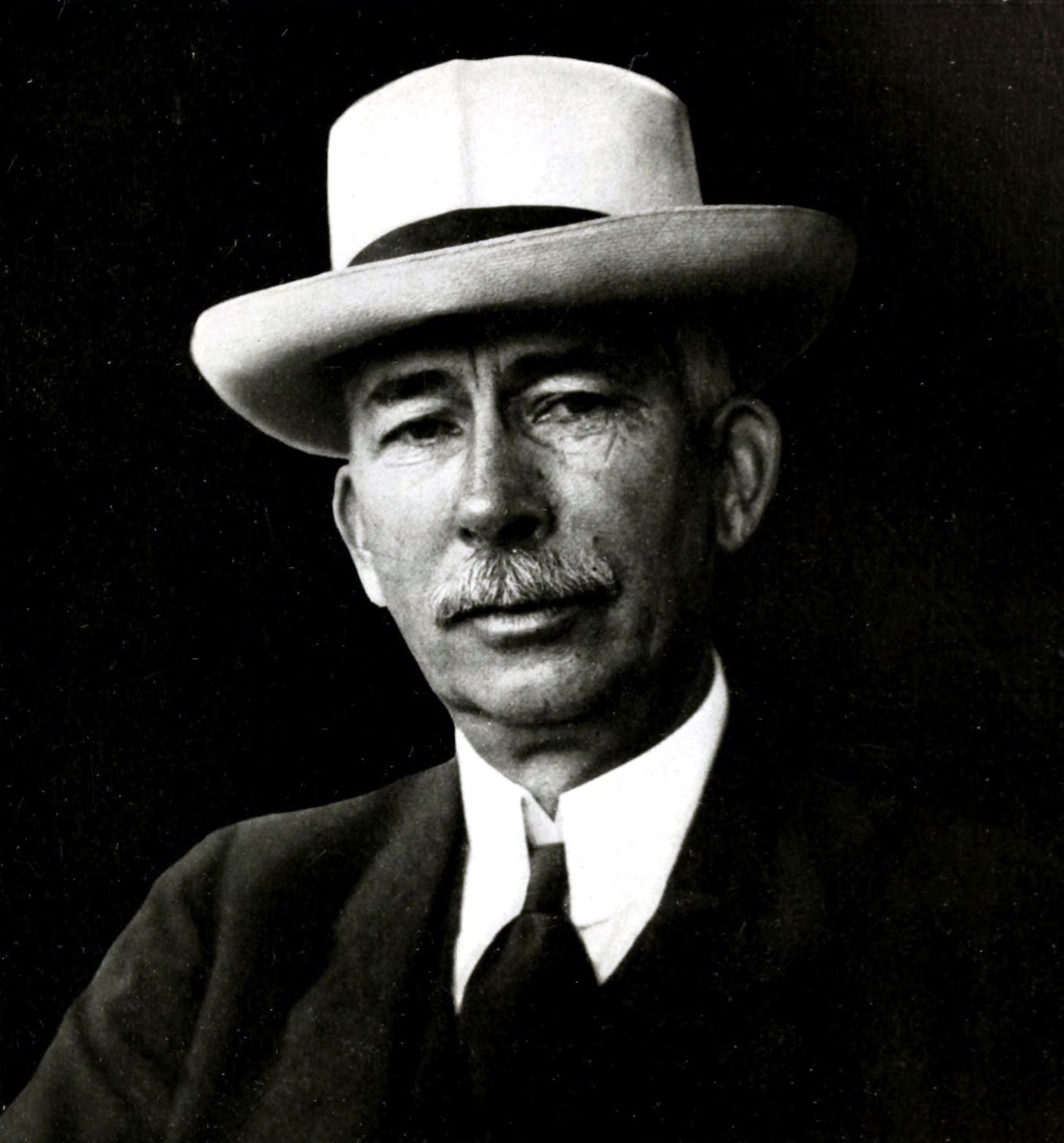 Portrait of Colonel Edward M. House